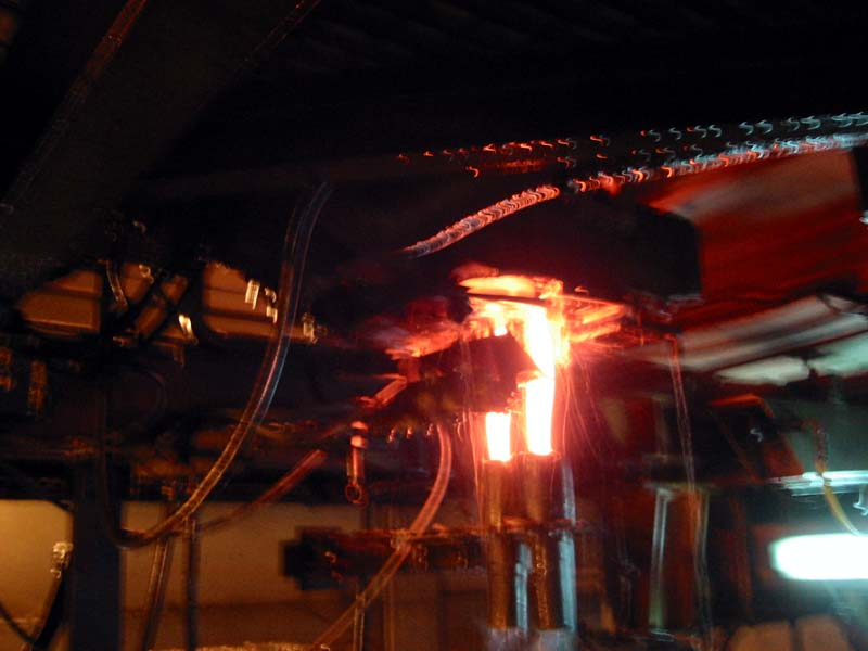 under the feeder: double gob